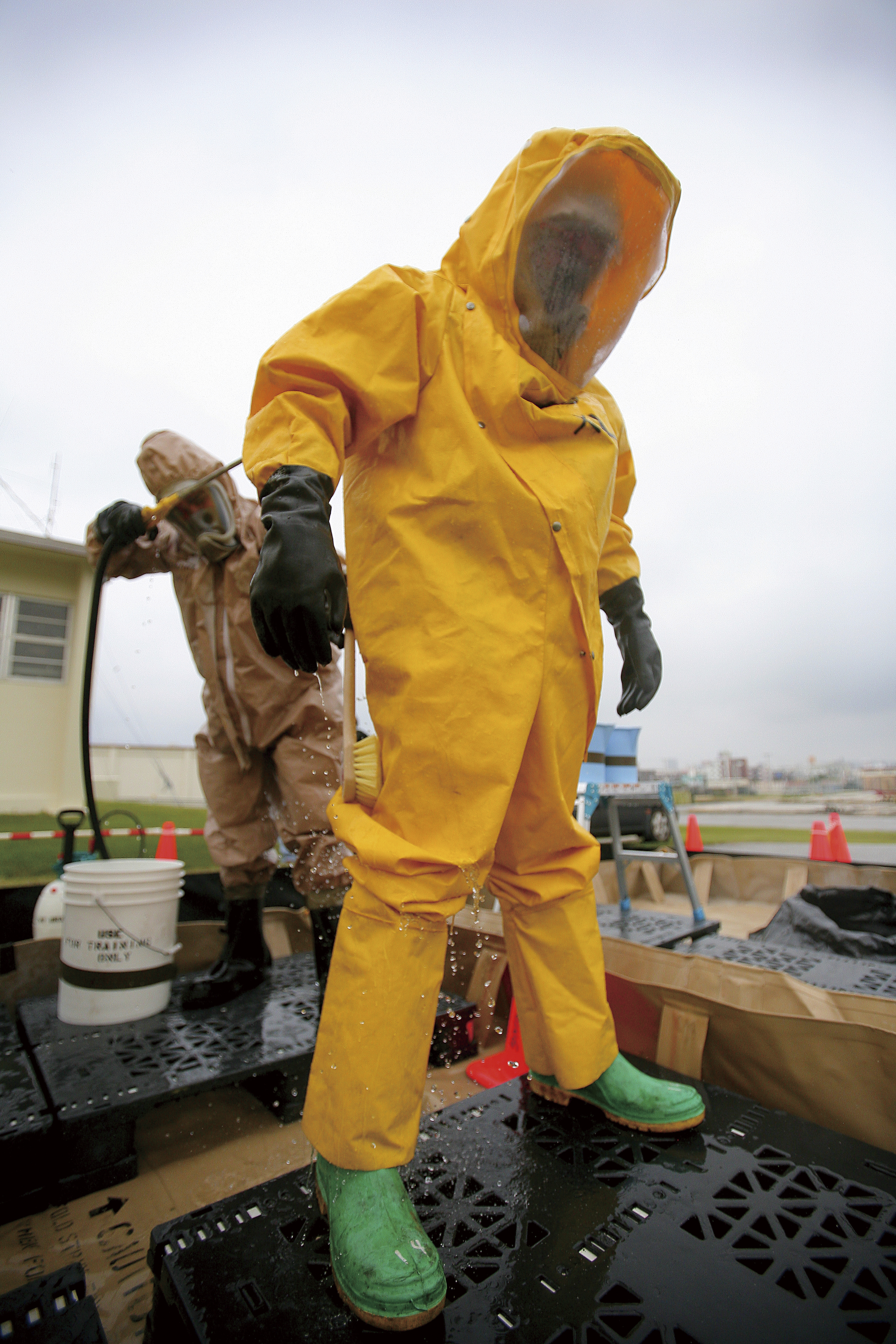 Lance Cpl. James Jackson, with the Camp Courtney Provost Marshal's Office, is decontaminated by Lance Cpl. William R. Johnson with Marine Air Control Squadron 4, 1st Marine Aircraft Wing, after participating in a hazardous material emergency response exercise aboard Camp Foster March 20. Unit: III Marine Expeditionary Force DVIDS Tags: Marine; Okinawa; Yarbrough